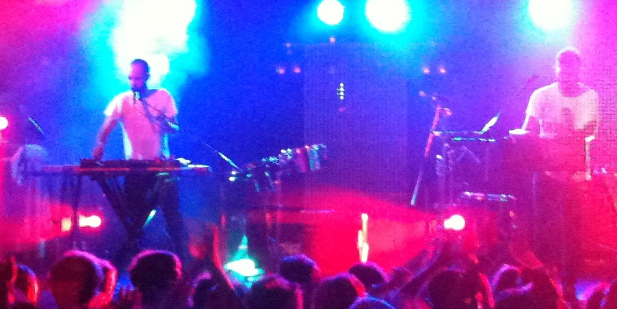 Bag Raiders performing on 5 December 2010. Paddington, Sydney, NSW, AU.